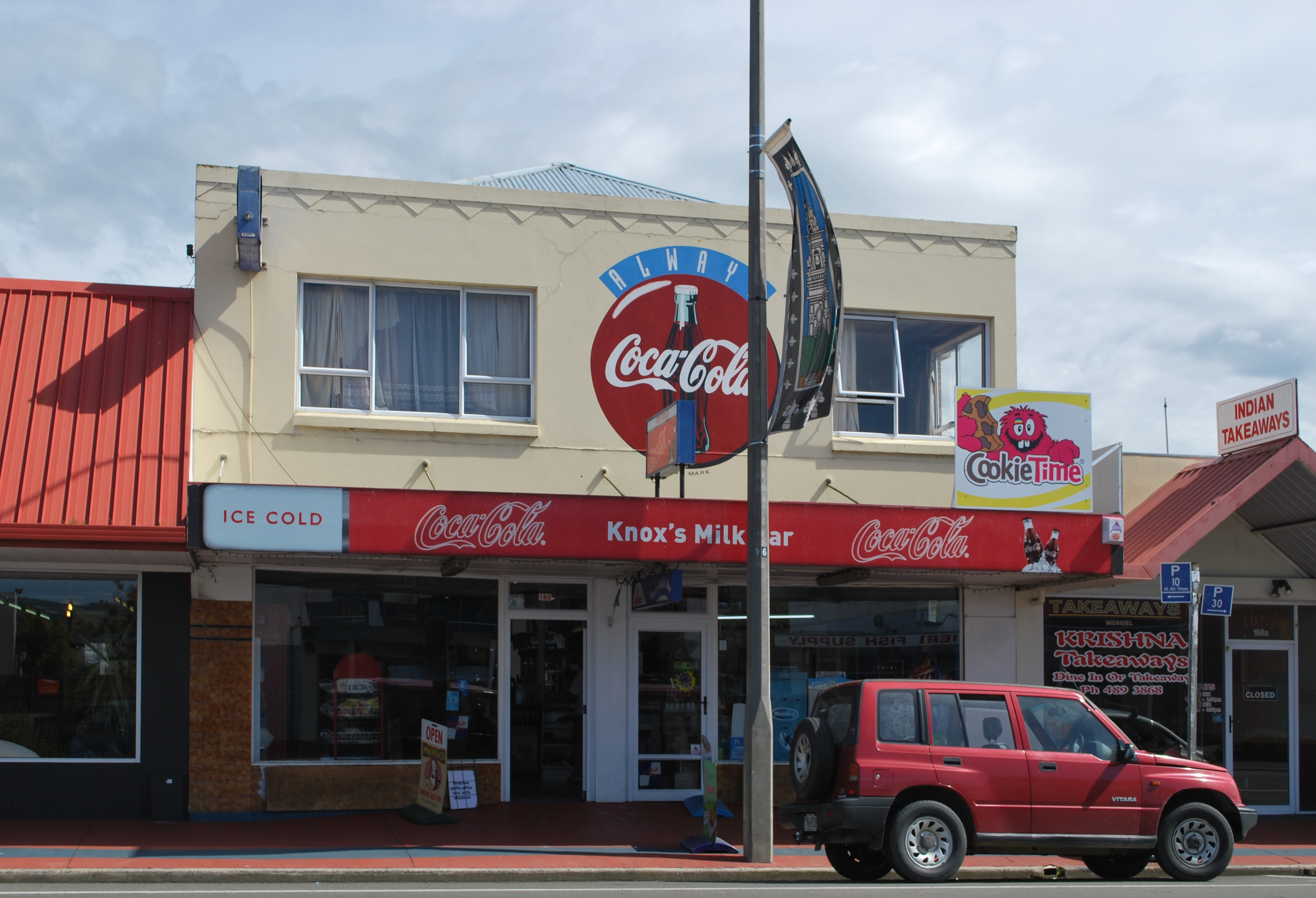 Knox's Milk Bar at Mosgiel